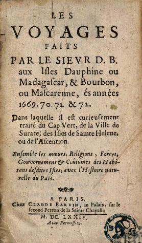 Title-page of "Les voyages faits par le sieur D.B. aux isles Dauphine ou Madagascar et Bourbon ou Mascarenne, ès années 1669, 70, 71 et 72" (Paris, 1674) by Sieur Dubois